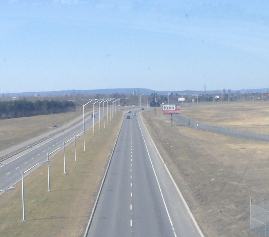 River Road in Ottawa, Ontario, Canada